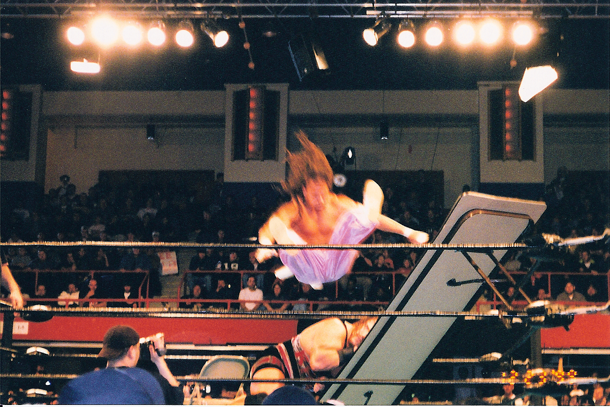 ECW @ Westchester County Center in White Plains, NY TNN TV Taping - 12.23.99